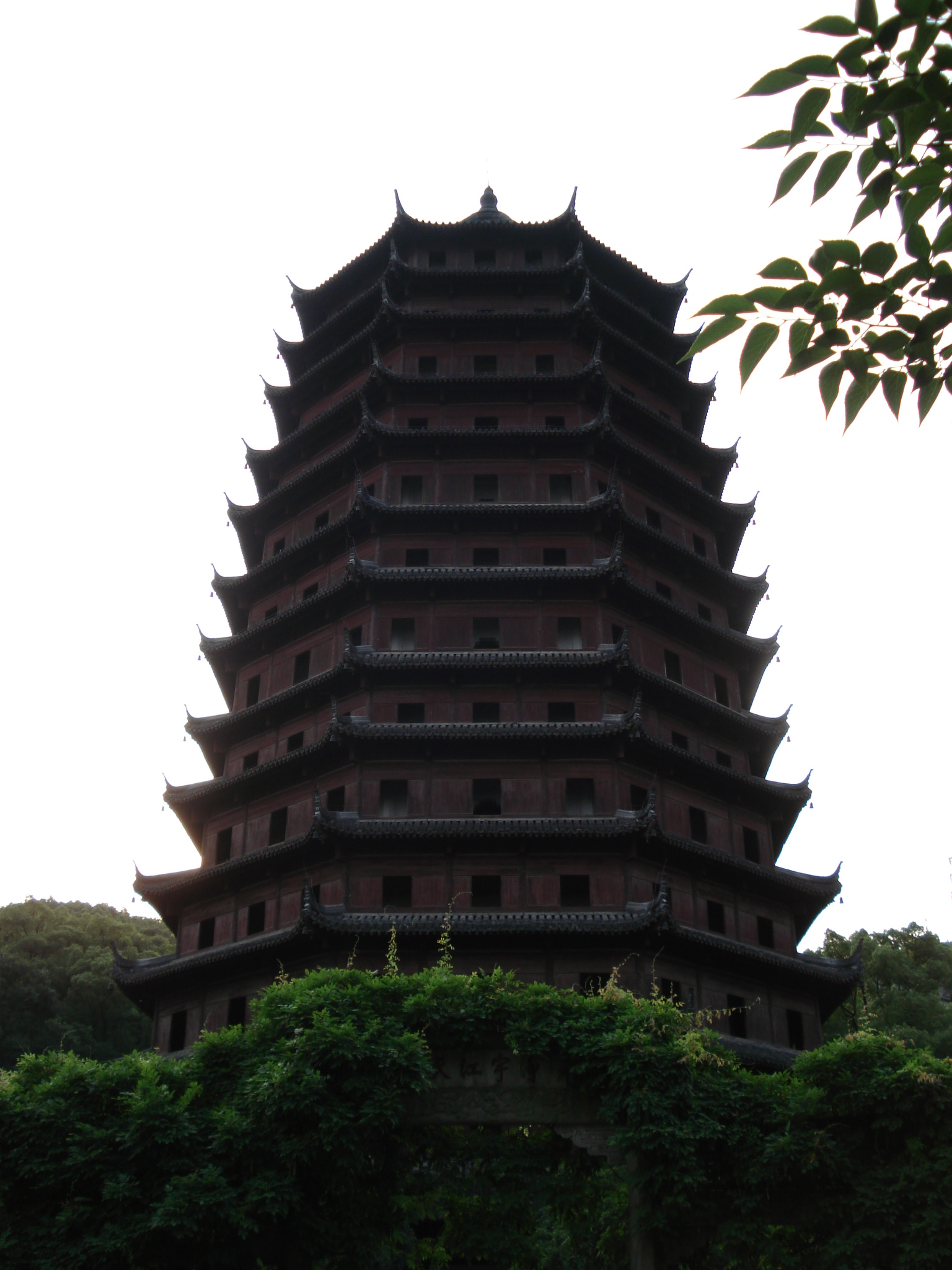 The Liuhe Pagoda of Hangzhou, China, built by 1165 during the Song Dynasty of medieval China. Author: Patrick T. Morgan, Date: From my personal files during a June 2007 trip to Hangzhou.